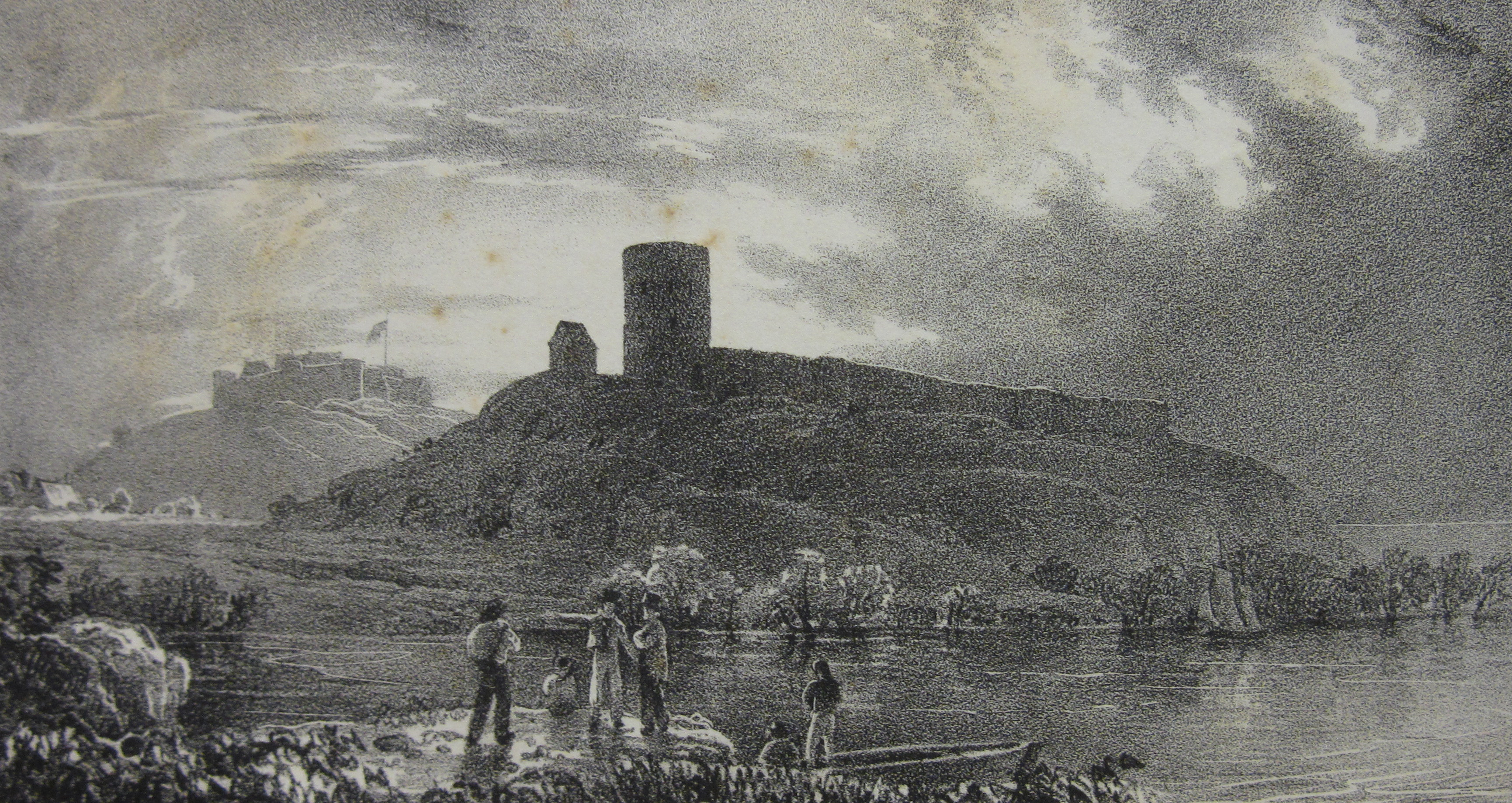 A Guide to the Island of Guernsey, being a complete description of the Island, the authorities, & professional men, with a Commercial Directory, also a brief description of the adjacent Islands of Alderney, Serk, Herm and Jethou. Guernsey, 1826. This work is in the public domain in its country of origin and other countries and areas where the copyright term is the author's life plus 70 years or fewer. You must also include a United States public domain tag to indicate why this work is in the public domain in the United States. Note that a few countries have copyright terms longer than 70 years: Mexico has 100 years, Jamaica has 95 years, Colombia has 80 years, and Guatemala and Samoa have 75 years. This image may not be in the public domain in these countries, which moreover do not implement the rule of the shorter term. Côte d'Ivoire has a general copyright term of 99 years and Honduras has 75 years, but they do implement the rule of the shorter term. Copyright may extend on works created by French who died for France in World War II (more information), Russians who served in the Eastern Front of World War II (known as the Great Patriotic War in Russia) and posthumously rehabilitated victims of Soviet repressions (more information). This file has been identified as being free of known restrictions under copyright law, including all related and neighboring rights.